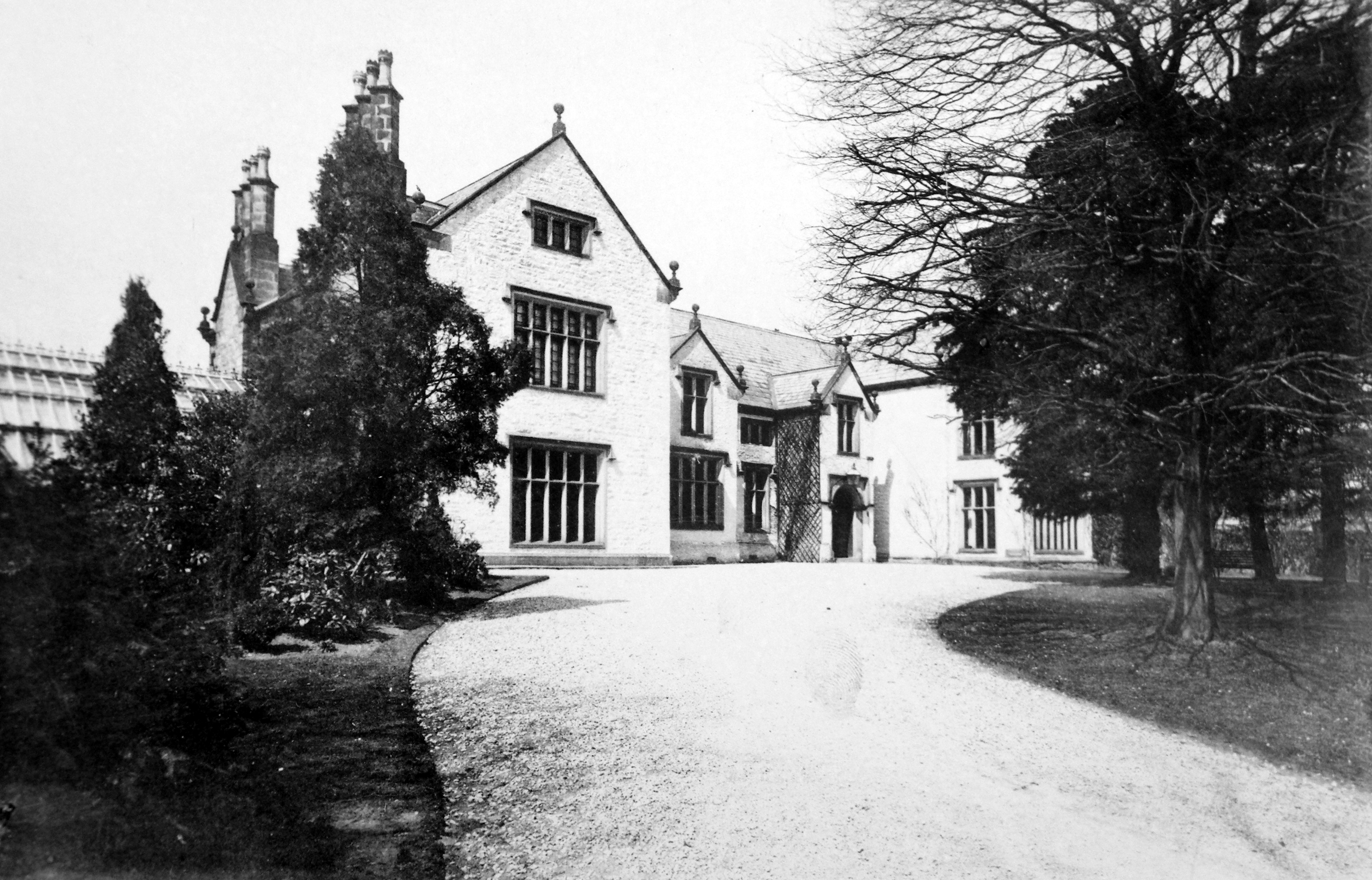 Copy photograph of Mytton Hall